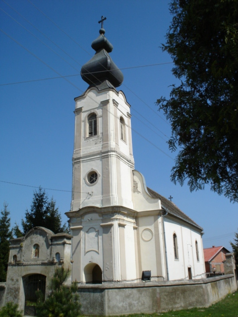 Serb Orthodox Church in Bolman